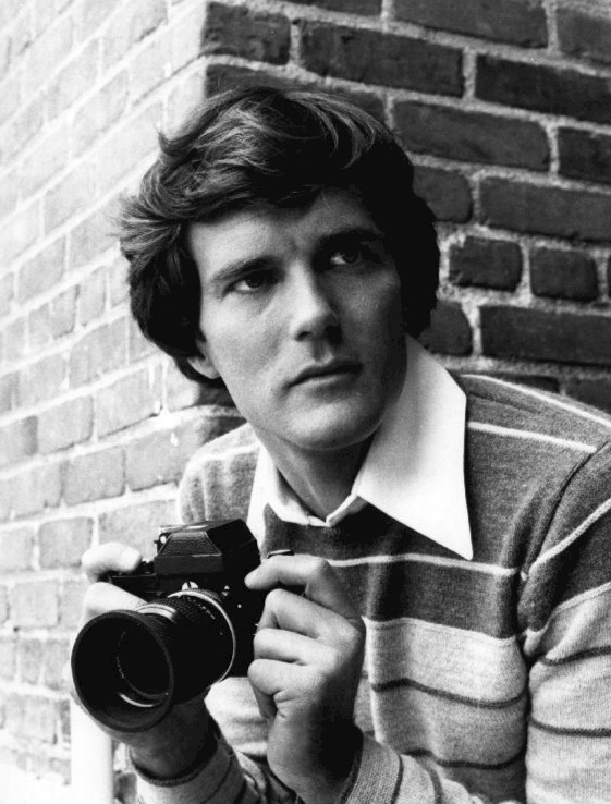 Photo of Nicholas Hammond as Peter Parker from the television program The Amazing Spider-Man.